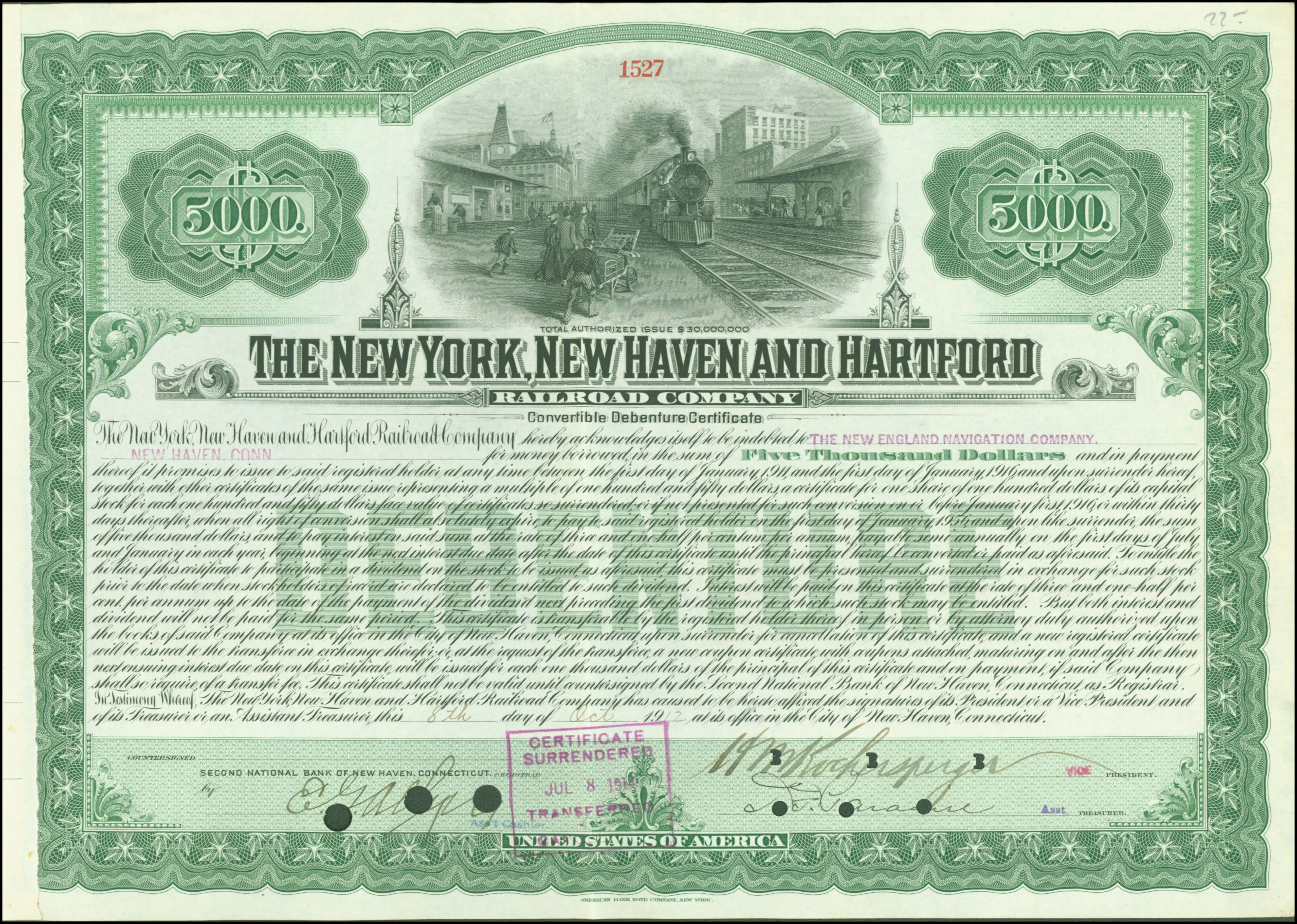 Convertible debenture certificate of the New York, New Haven and Hartford Railroad Company, issued 8. October 1912